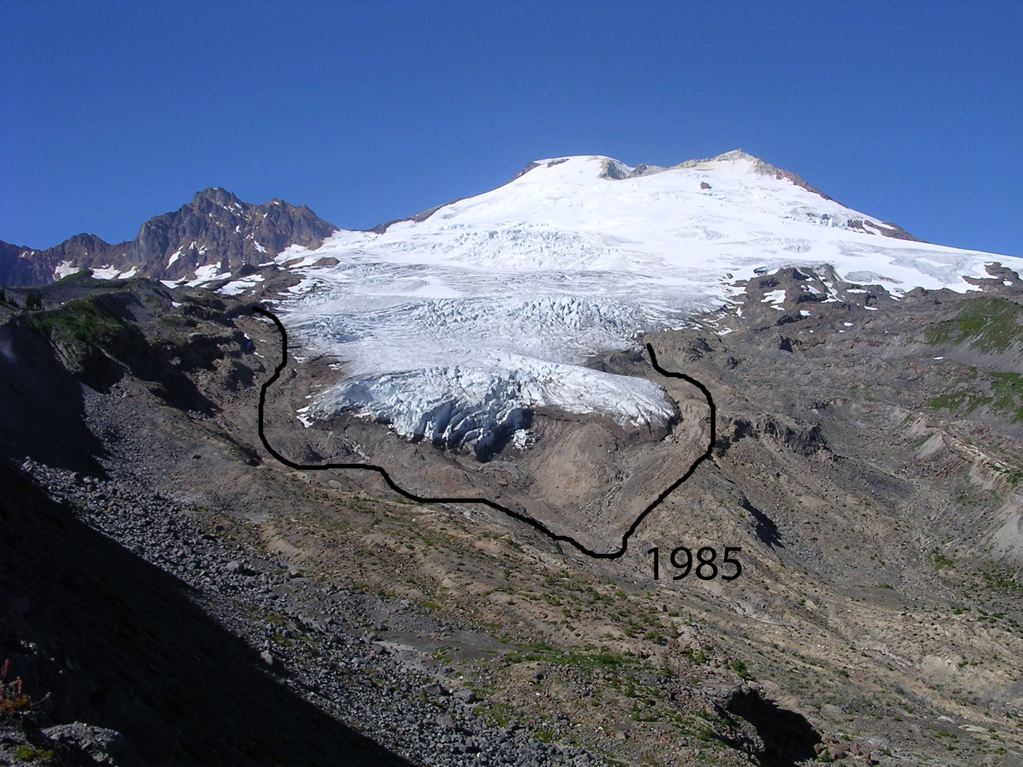 Easton Glacier on Mount Baker in the North Cascades of Washington taken in 2003. It shows the terminus position of the glacier in 1985 as well.